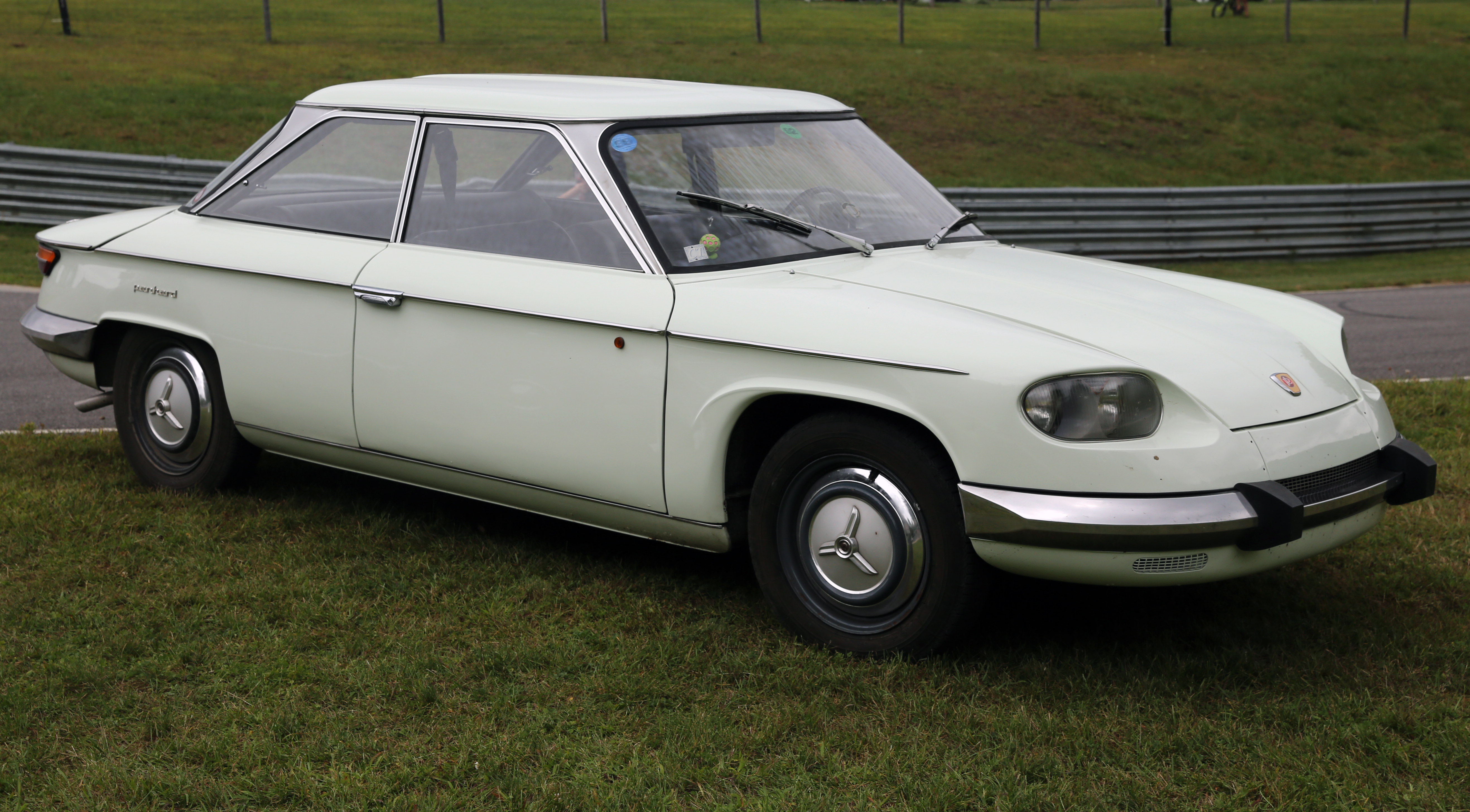 A 1967 Panhard 24BT at the 2014 Lime Rock Gathering of the Marques attached to the Concours d'Élegance.